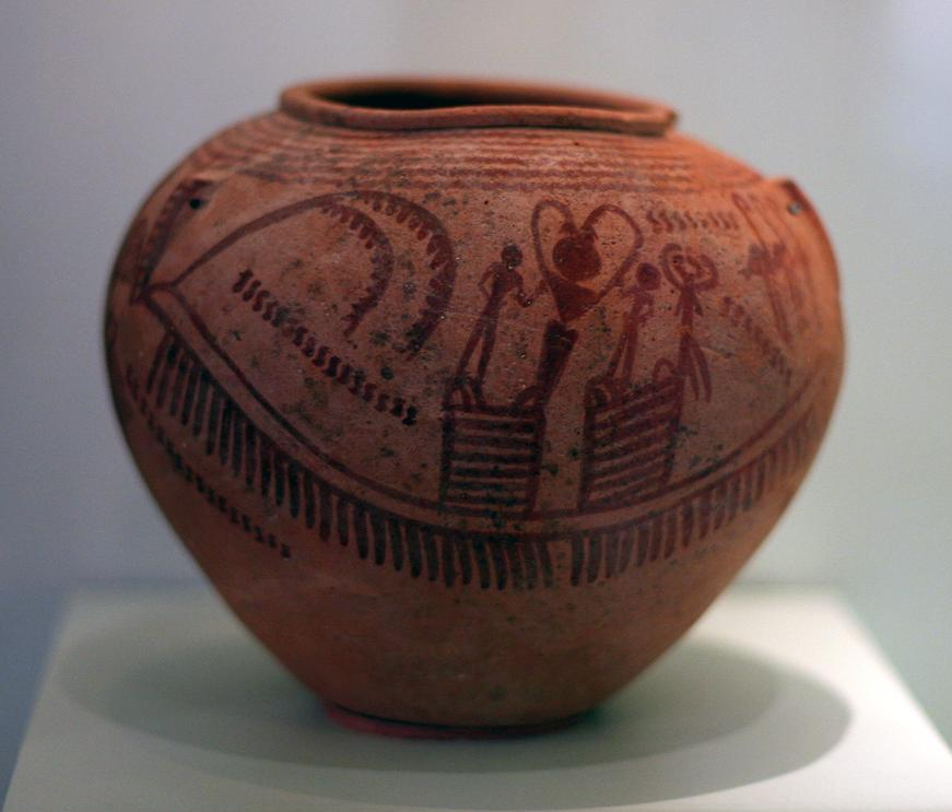 Jar with Boat Designs, ca. 3450-3350 B.C.E. Pottery, painted, 6 15/16 x 8 1/4 in. (17.6 x 20.9 cm). Brooklyn Museum, Charles Edwin Wilbour Fund, 09.889.400.